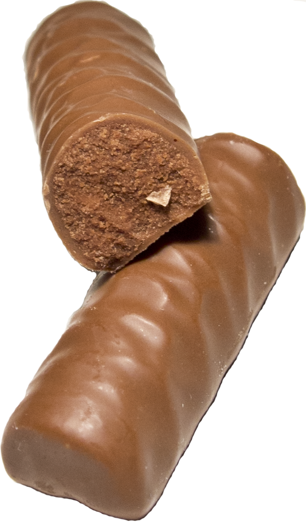 Split chocolate bar "Pätkis" made of mint truffle and milk chocolate by Fazer.